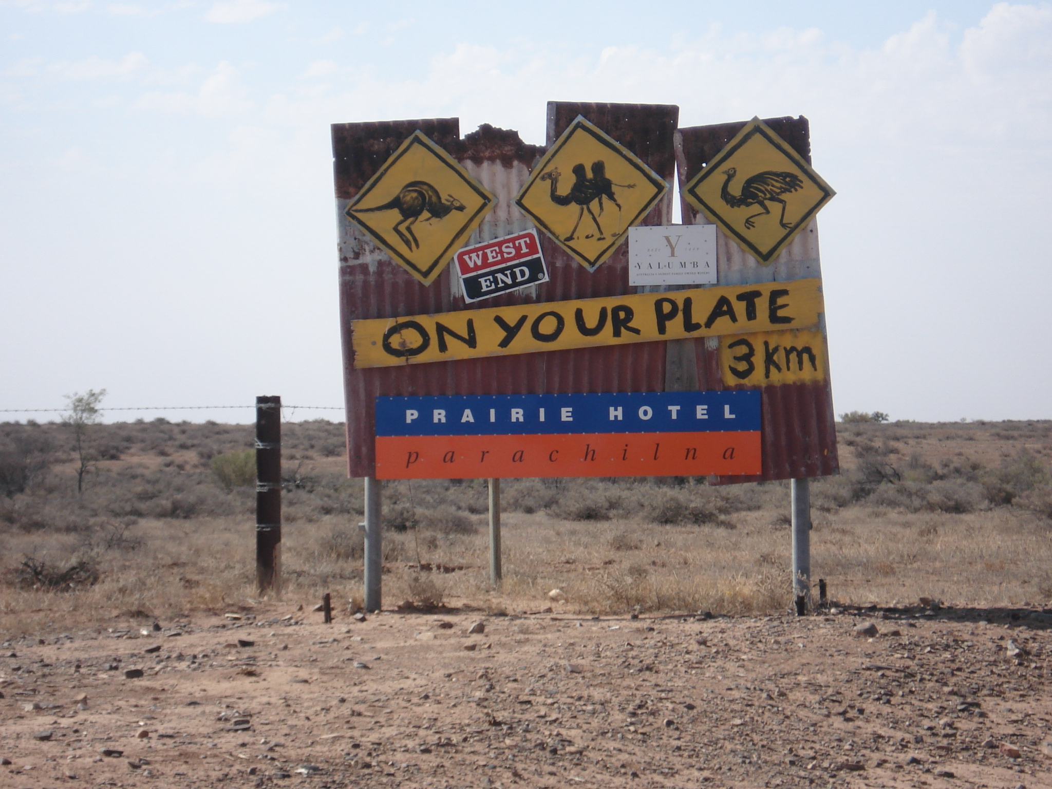 I have taken this pic